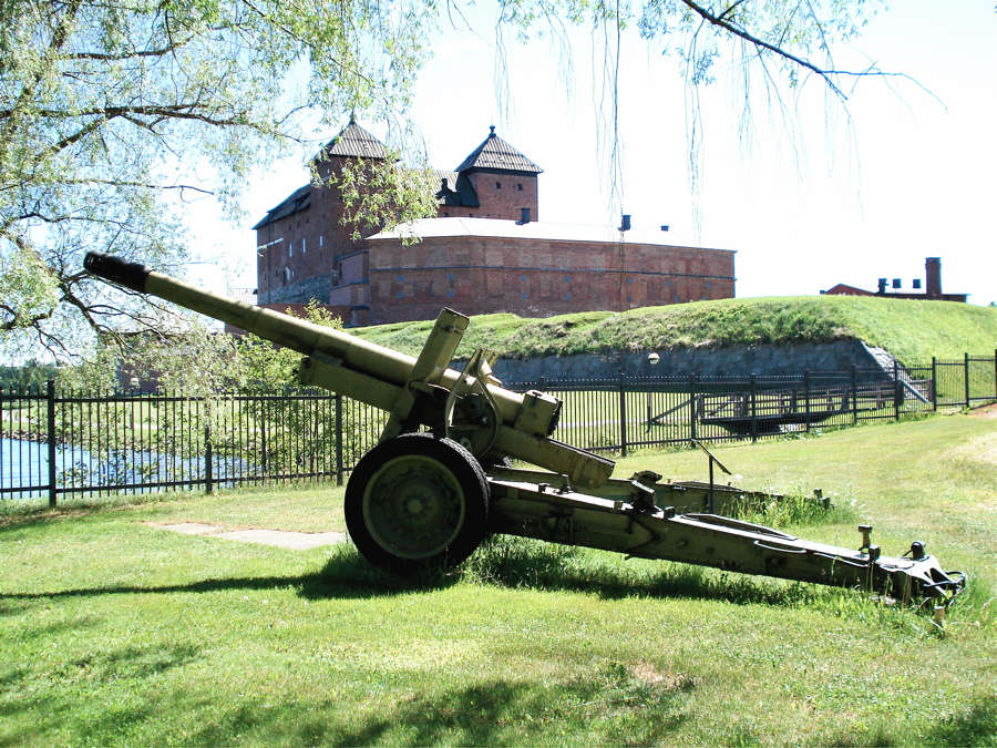 Soviet 152mm mm ML-20 gun-howitzer, displayed in Hämeenlinna Artillery Museum. Photo taken on June 18, 2006. Source: Photo by me, User:Balcer.